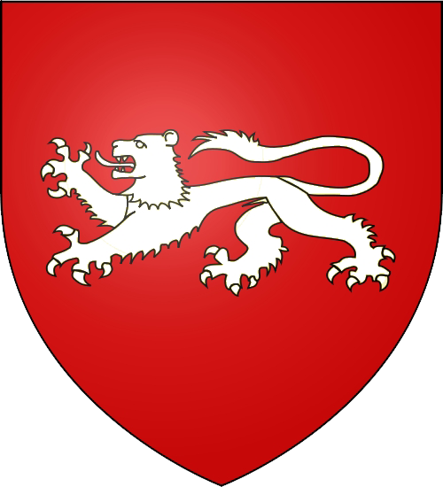 Coat of arms of the O'Toole.